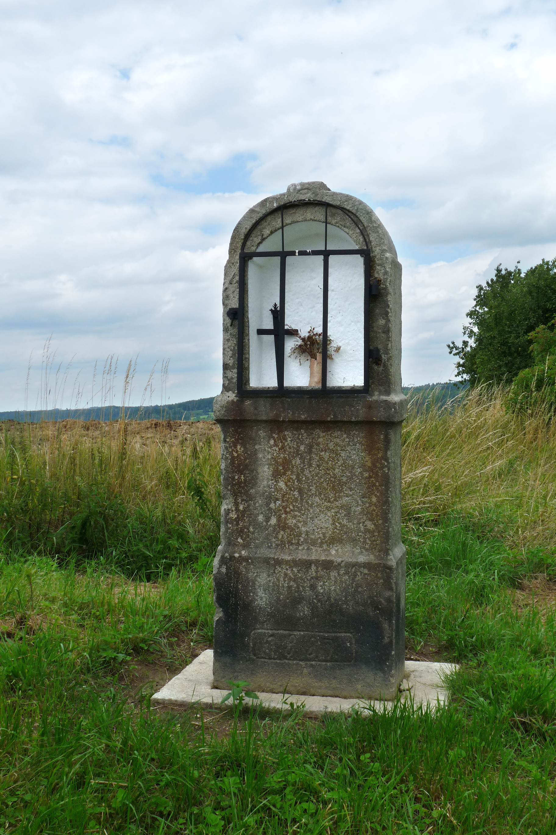 Wayside shrine in the village of Lniště, České Budějovice District, Czech Republic.